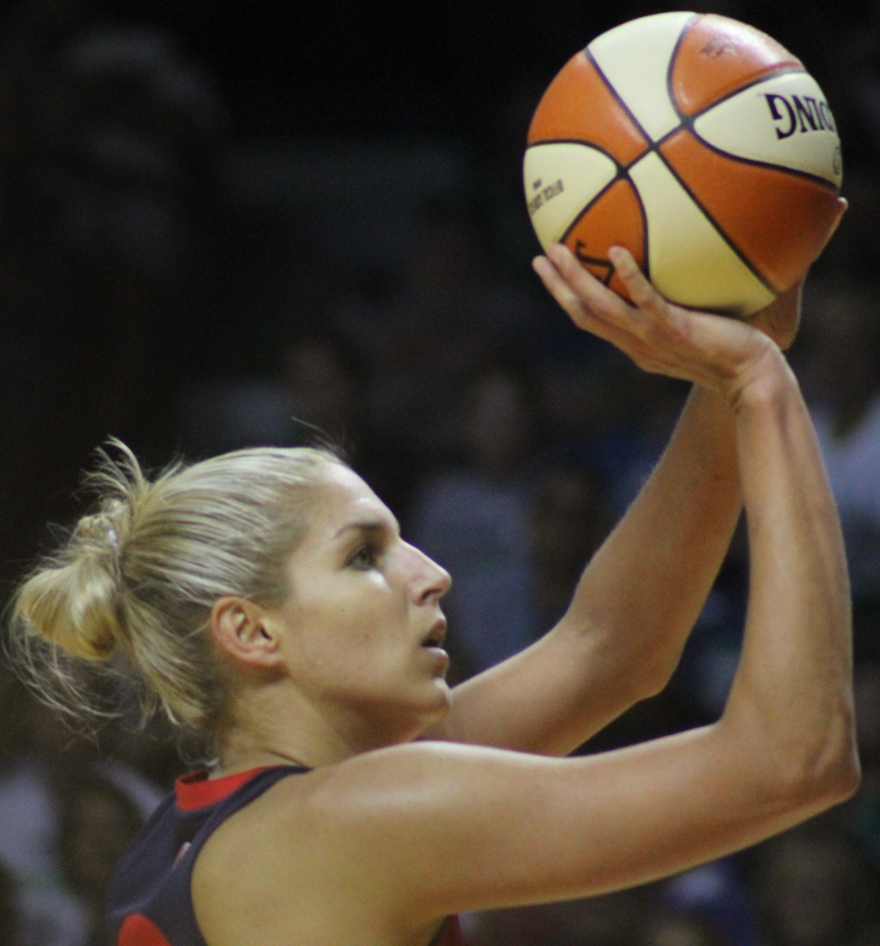 Elena Delle Donne shooting a free throw in the 2017 WNBA semifinals